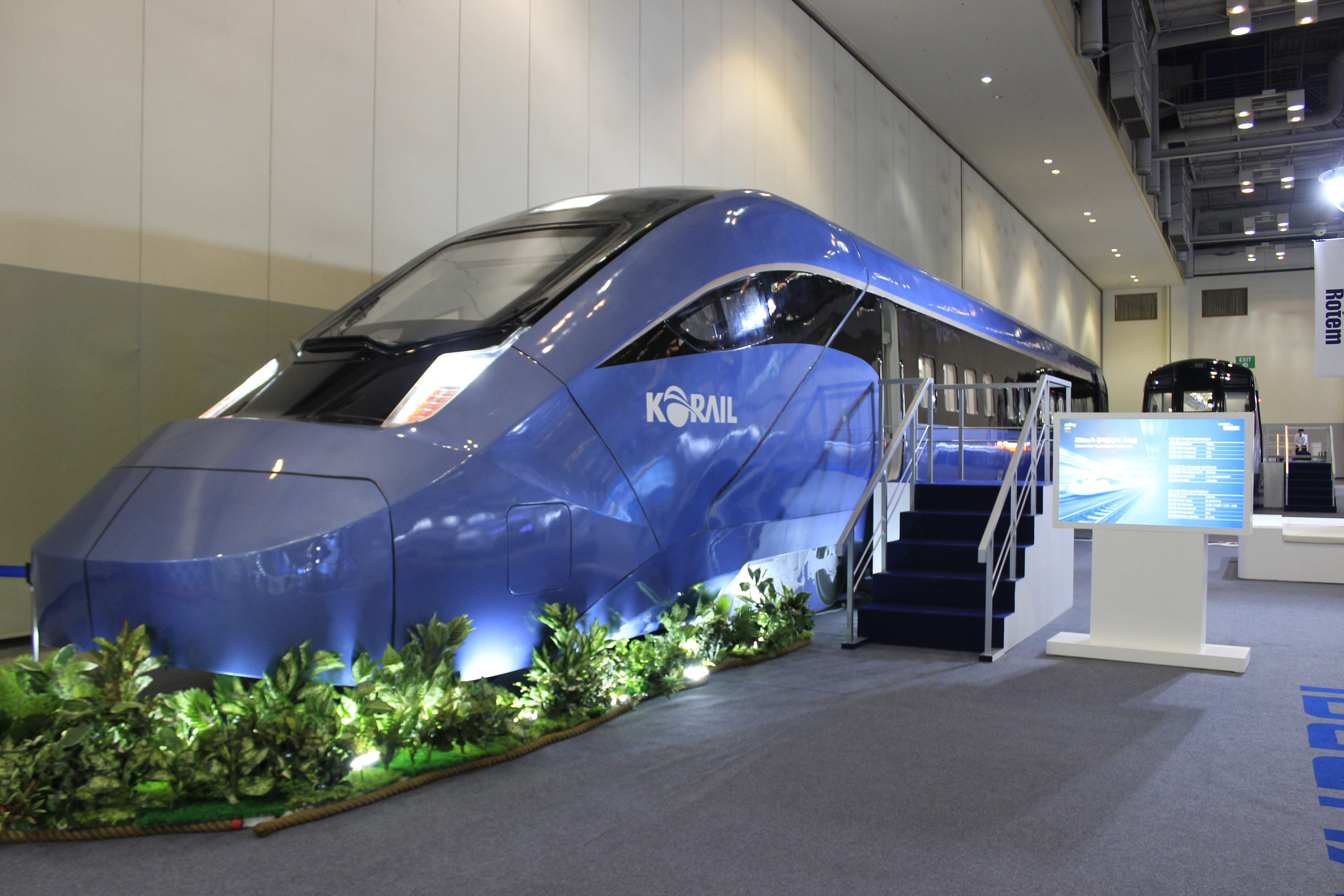 Korail(Korean Railroad)'s New High speed Car EMU-250/300. It is Mock Up in Bexco.